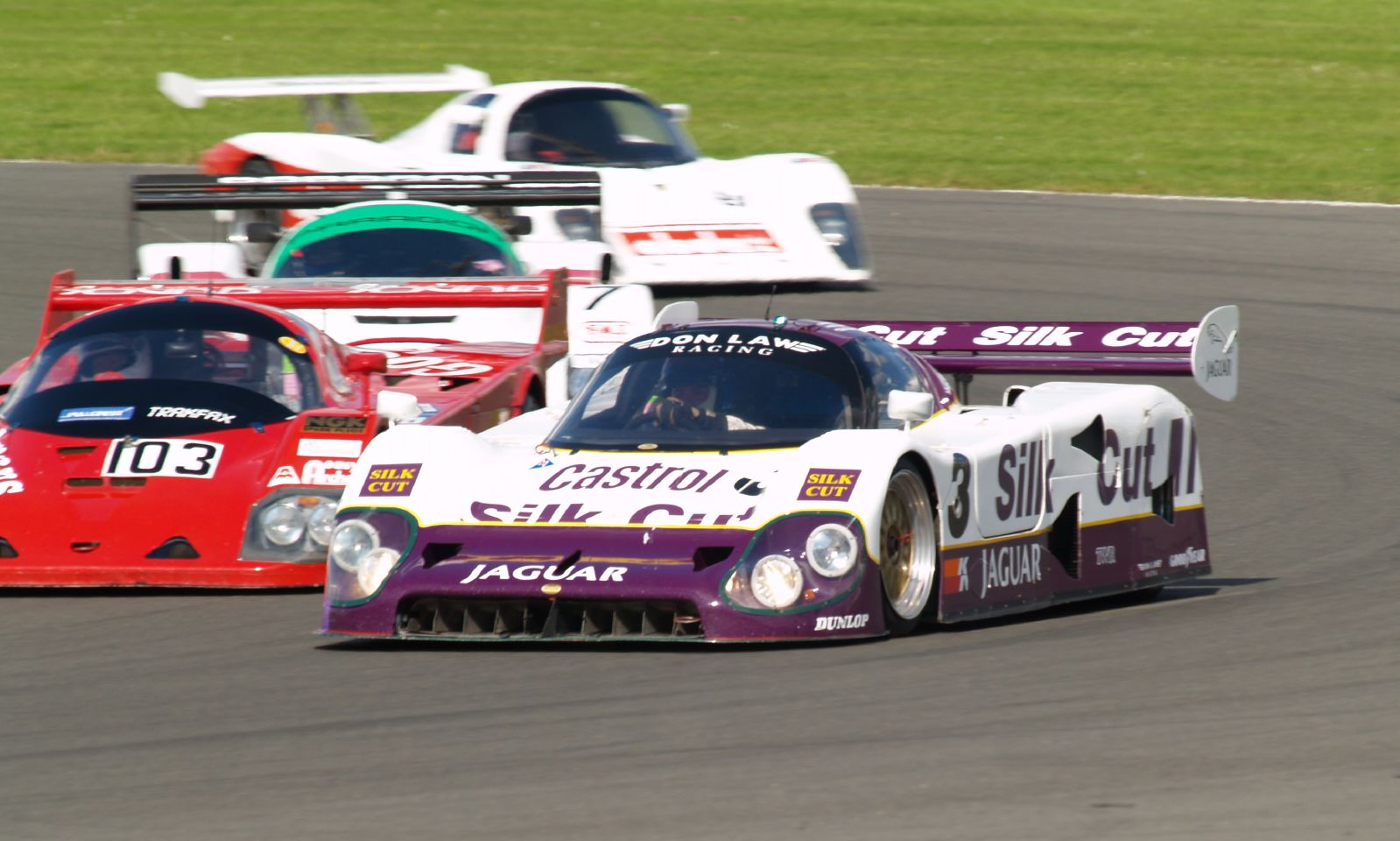 A grouping of Group C and IMSA GTP cars at the Silverstone Classic